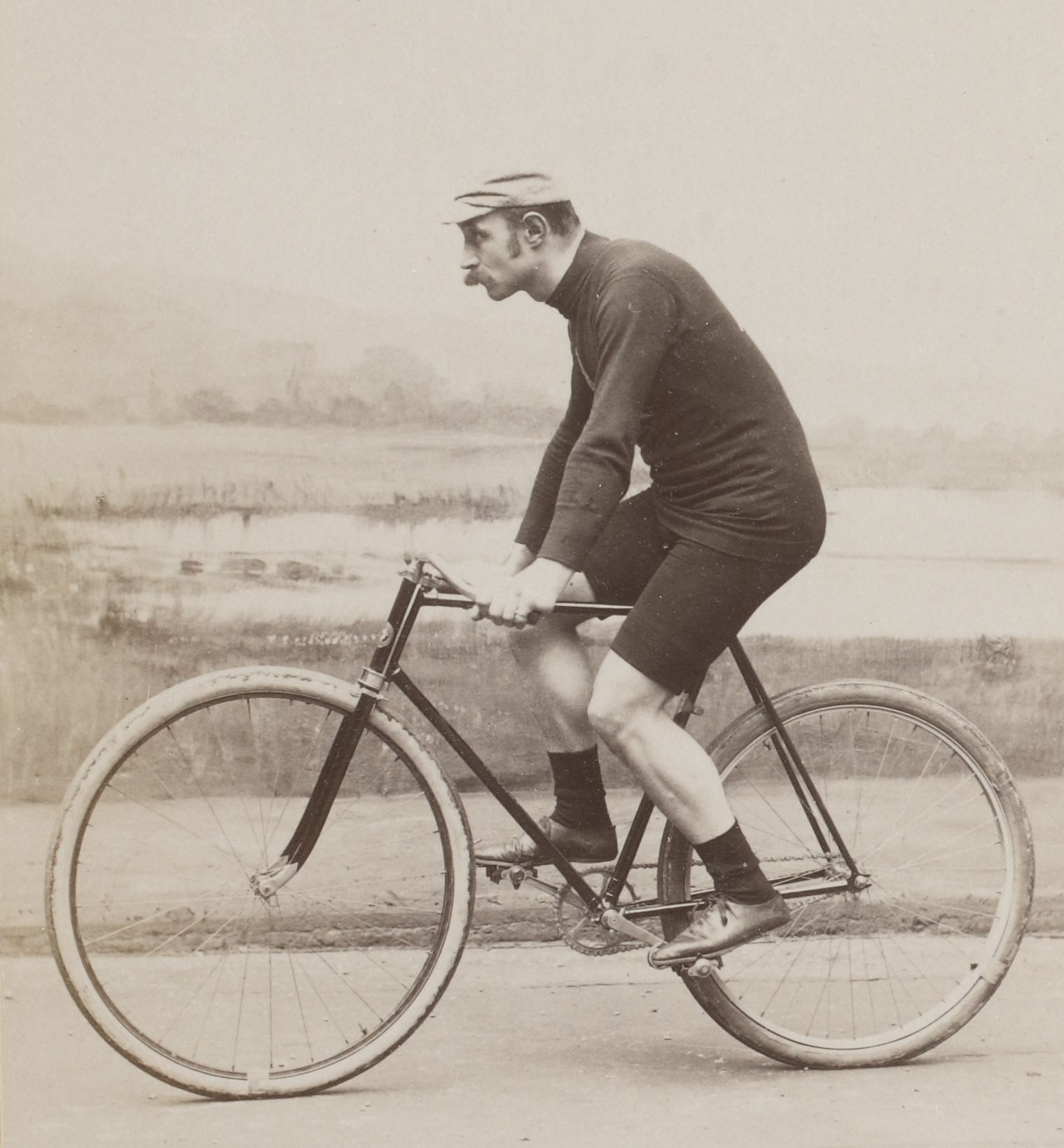 [Collection Jules Beau. Photographie sportive] : T. 6. Année 1898 / Jules Beau : F. 48. Médinger ; The cyclist on the photo is definitely Paul Médinger, so the photo must be older then 1898, because Médinger died in 1895 already - The photo is dated on 1891, when he was french speed champion (Le Miroir du Sport, 16 janvier 1934, p.34).